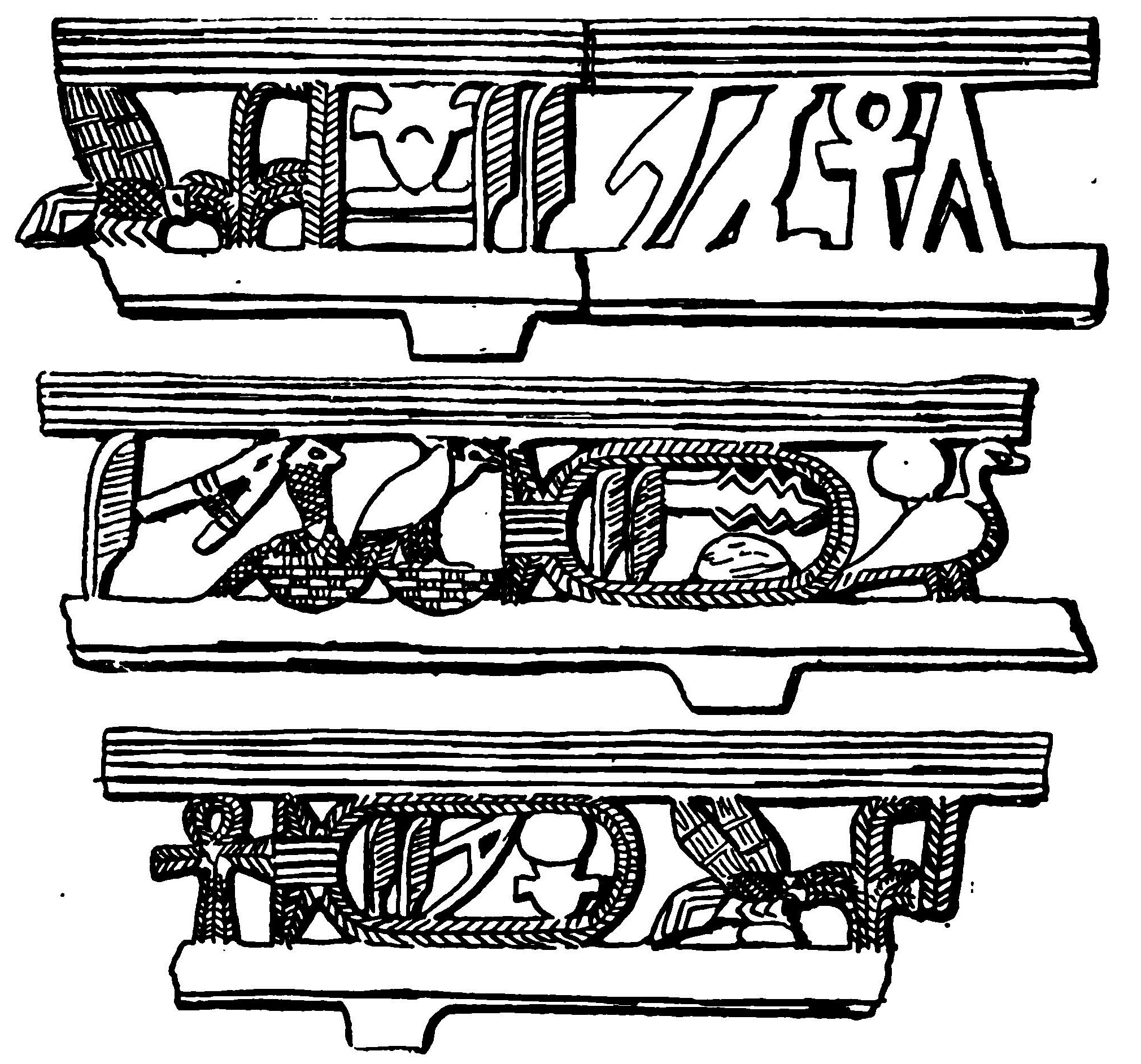 Drawings of the side views of a copper brazier or basket bearing the royal titulary of king Meryibre Khety (9th or 10th dynasty) found in a tomb near Abydos along with the scribe palette bearing the name of Merikare. Louvre Museum, Room 23.